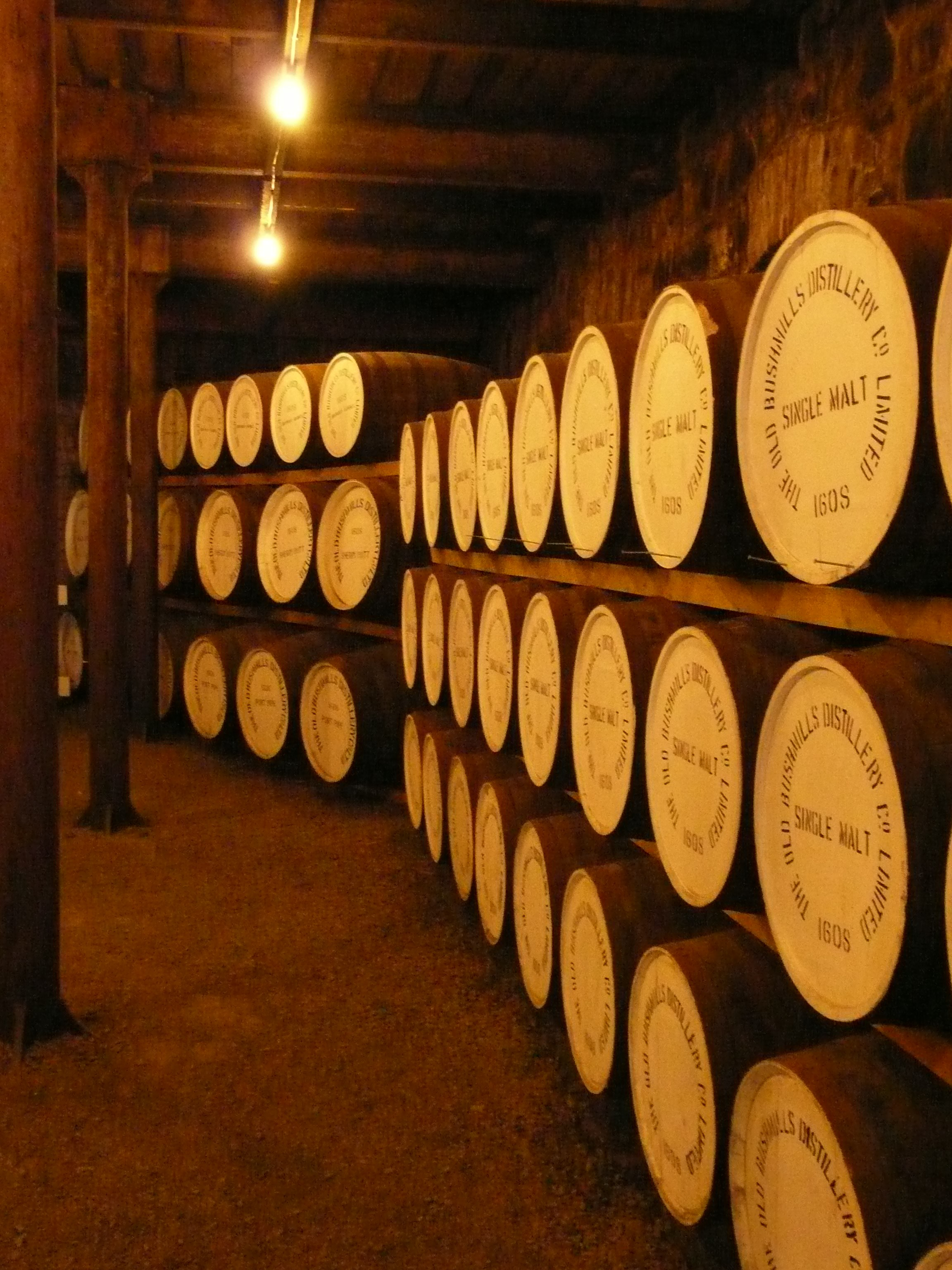 Old casks in Bushmills' old warehouse #2 Old Bushmills Distillery, County Antrim, Northern Ireland